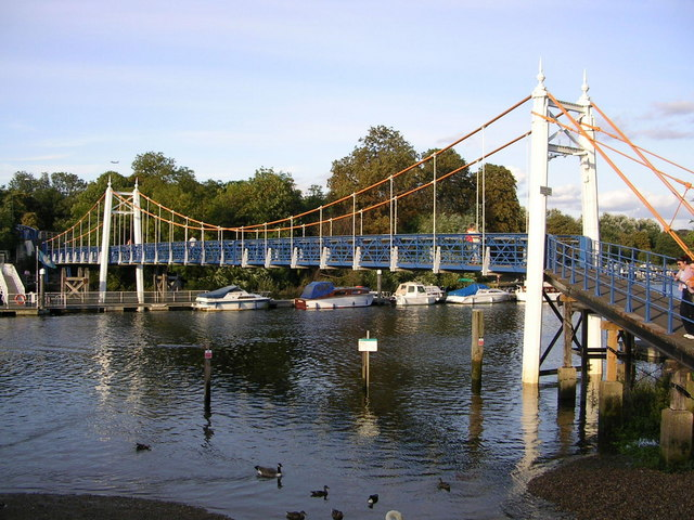 Teddington Lock footbridge